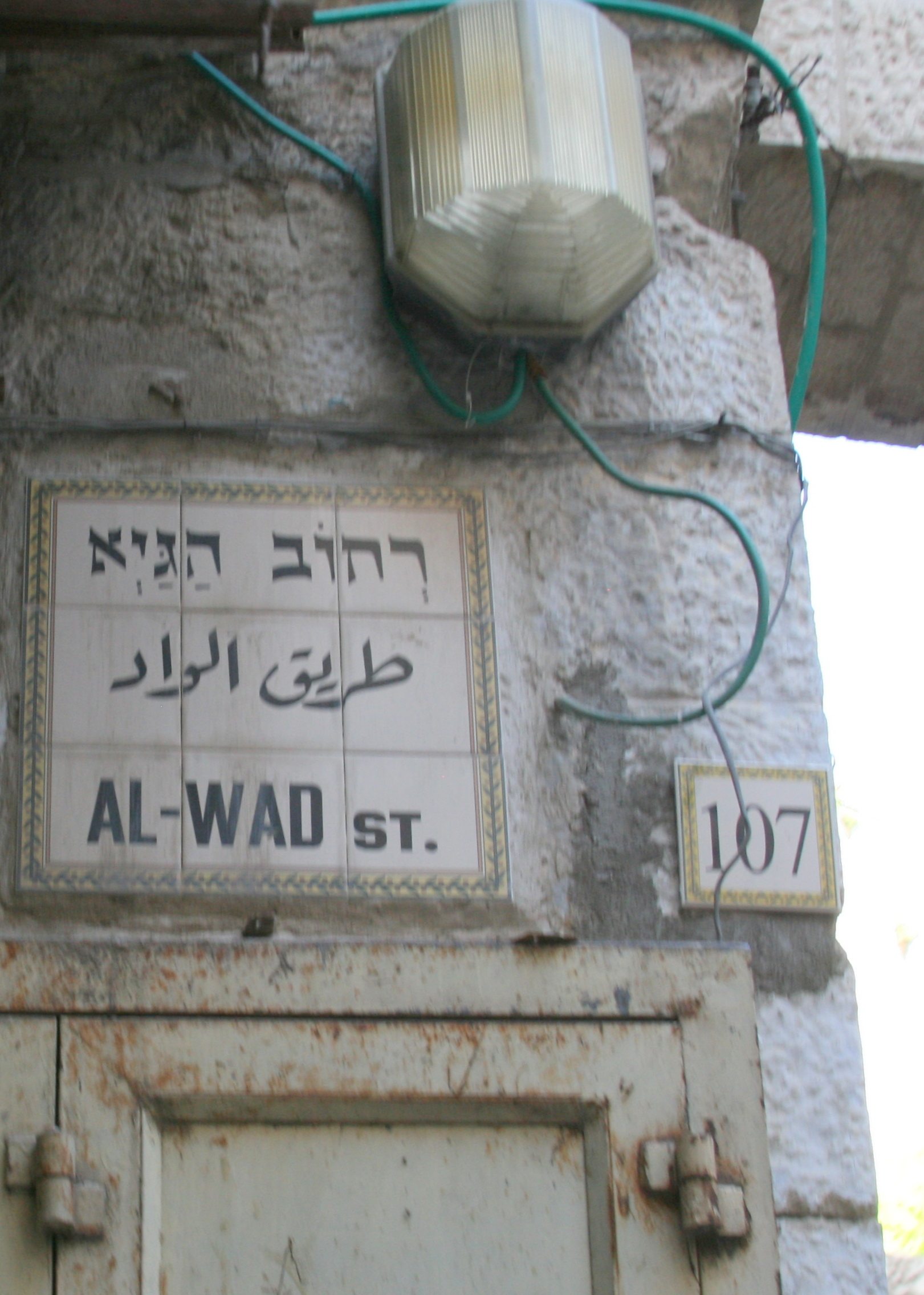 Photos of Old City of Jerusalem, part of Behold the Man visit of St. George's College, May 2013 Jerusalem